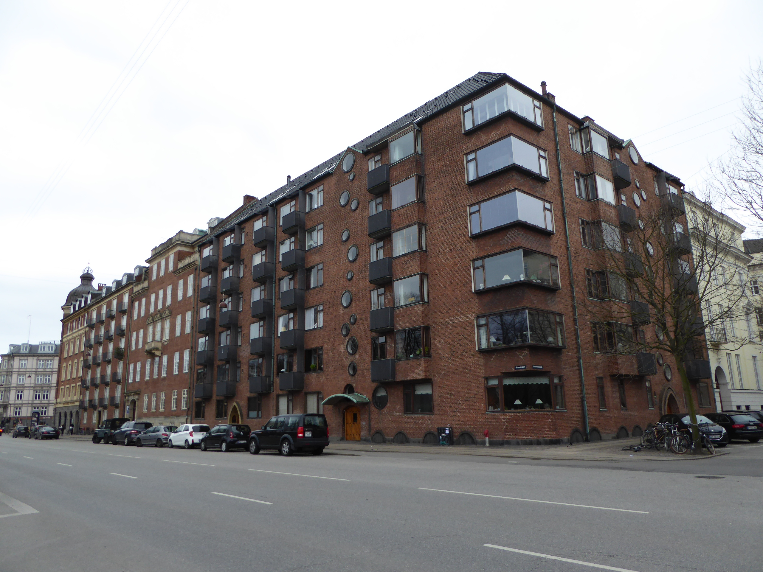 The street Grønningen in Indre By in Copenhagen.